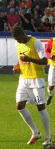 Jérôme Boateng, German soccer player